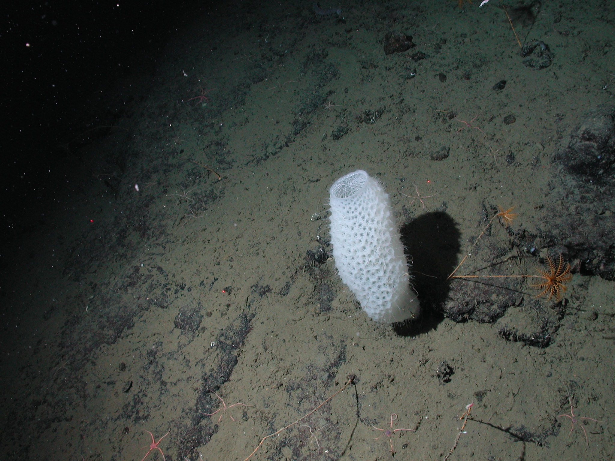 Euplectella aspergillum at 2572 meters water depth. California, Davidson Seamount